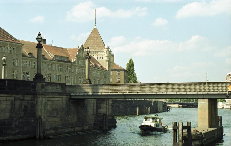 22.7.1991 Berlin-Mitte, Spree Information added by Wikimedia users.Correction: This is not Ebertsbrücke (which was built as late as 1992, one year after this photo was taken) but the northern part of Monbijoubrücke, a substitute construction which used to replace a bridge segment that was destroyed in WWII. In 2006, this substitute was itself replaced by a stone segment more similar to the original bridge.